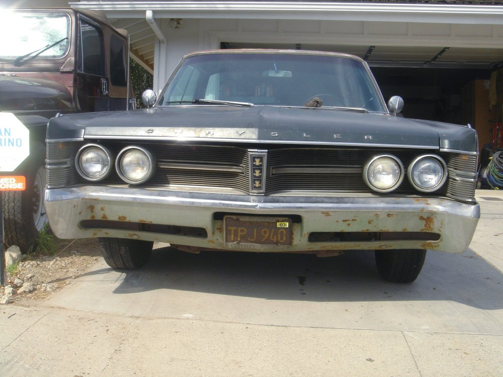 1967 Chrysler NewYorker